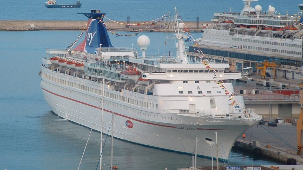 A photo of cruise ship Aquamarine as Carousel. Information about Carousel may be found at IMO 7027411. A ship can change name and flag state through time, but the IMO number remains the same through the hull's entire lifetime. As a result, it can be useful to identify a ship by using the IMO number.